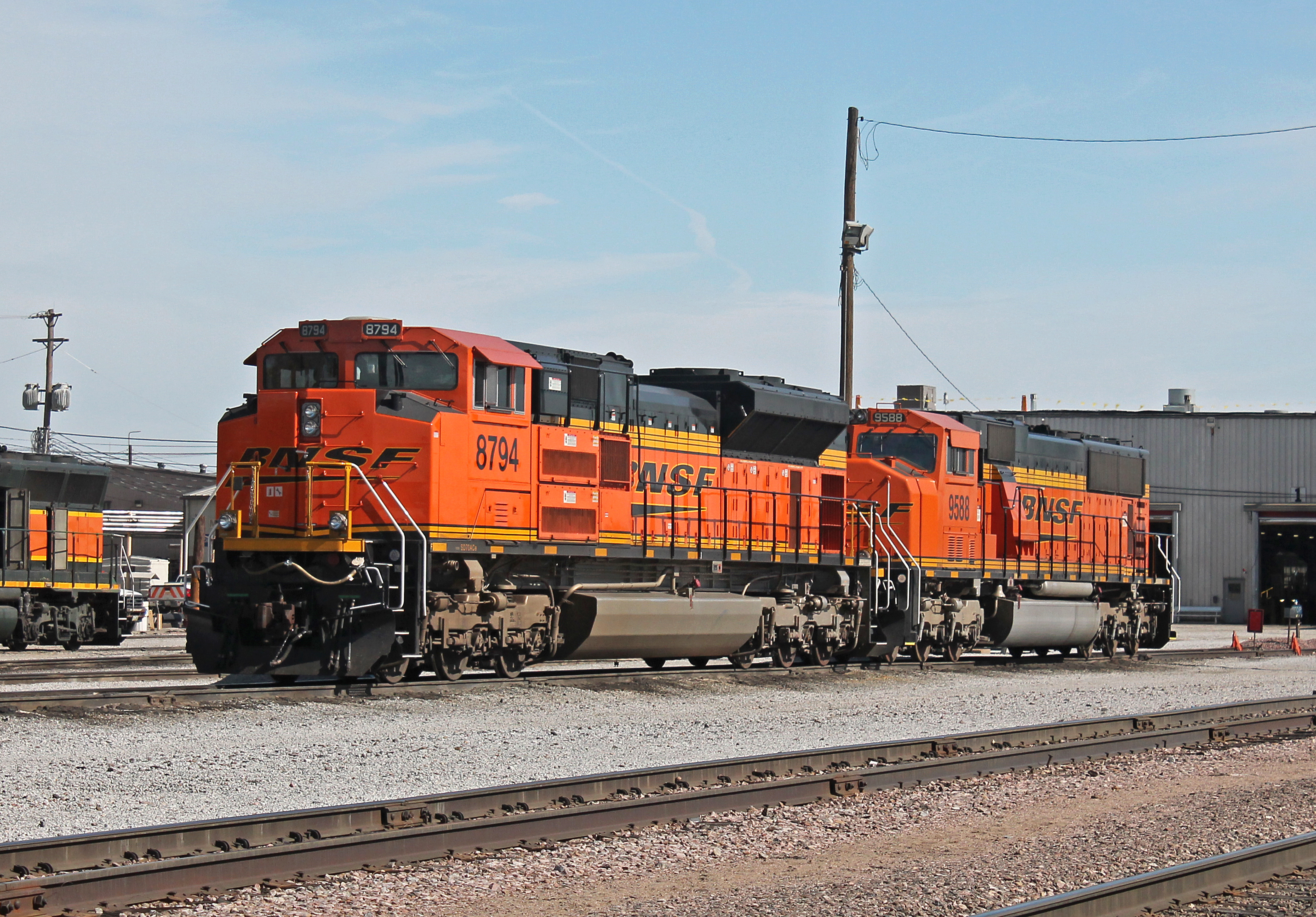 BNSF Railway SD70ACe no. 8794 coupled to an SD70MAC, providing a good comparison of the two models.